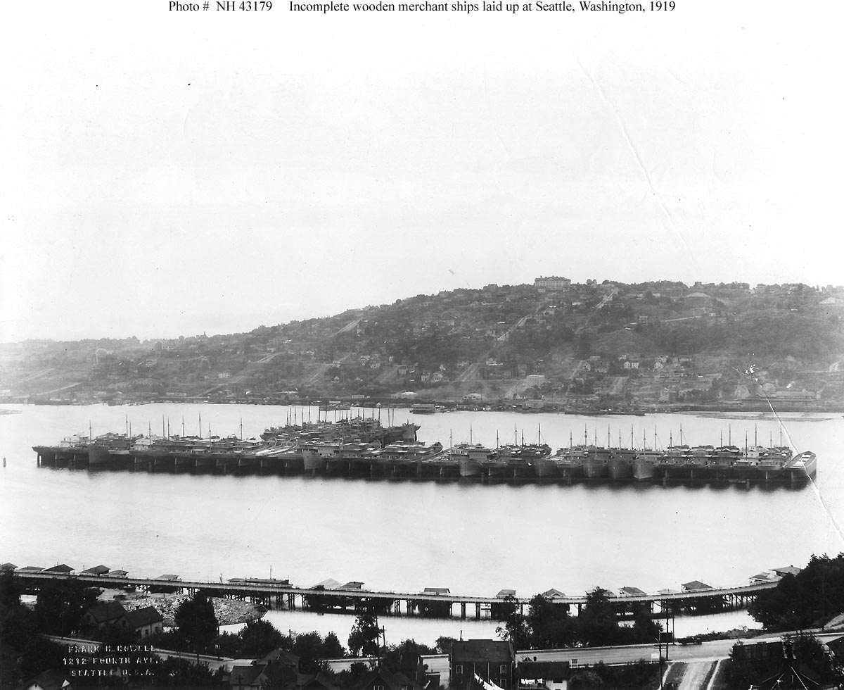 Naval History and Heritage Command, Online Library of Selected Images: "Photo #: NH 43179; Incomplete merchant ships laid up at Seattle, Washington; Photographed circa early to mid-1919. This is probably the storage facility at Seattle where the Northern Pacific Division (Washington State) of the Emergency Fleet Corporation laid up the wooden cargo ships it accepted without engines after the World War I Armistice, plus a few completed as flush deck barges. There are more than forty ships and barges in this group, most of them of the Ferris type (E.F.C. Design 1001). URL: The photo itself and copyright data is U.S. Government, not Military/Navy. Original in NARA collection with origin probably EMF. Please do not change to incorrect copyright information.